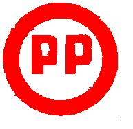 Circulo rojo con la siglas PP en el centro de color rojo